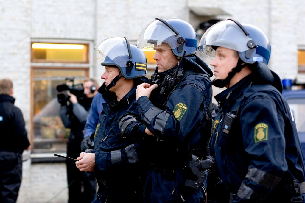 Danish police in tactical gear